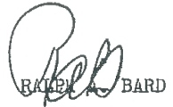 United States Under Secretary of the Navy Ralph Austin Bard's signature cropped from his famous memorandum to Secretary of War Henry L. Stimson advocating a warning to Japan before dropping the atomic bomb. A facsimile of the memorandum is found at